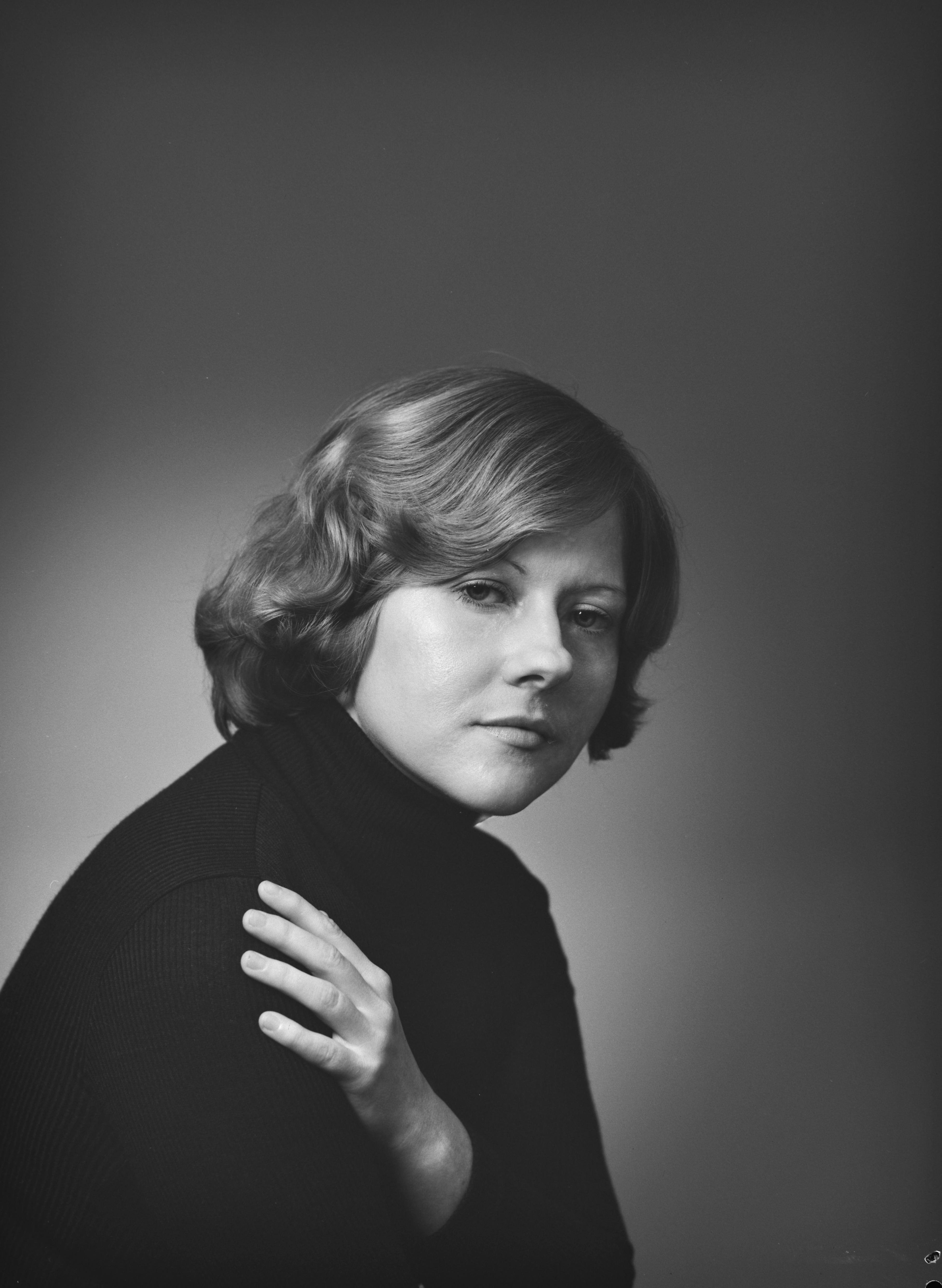 Photograph of the Finnish pianist Mervi Kianto-Wichmann (1947–).